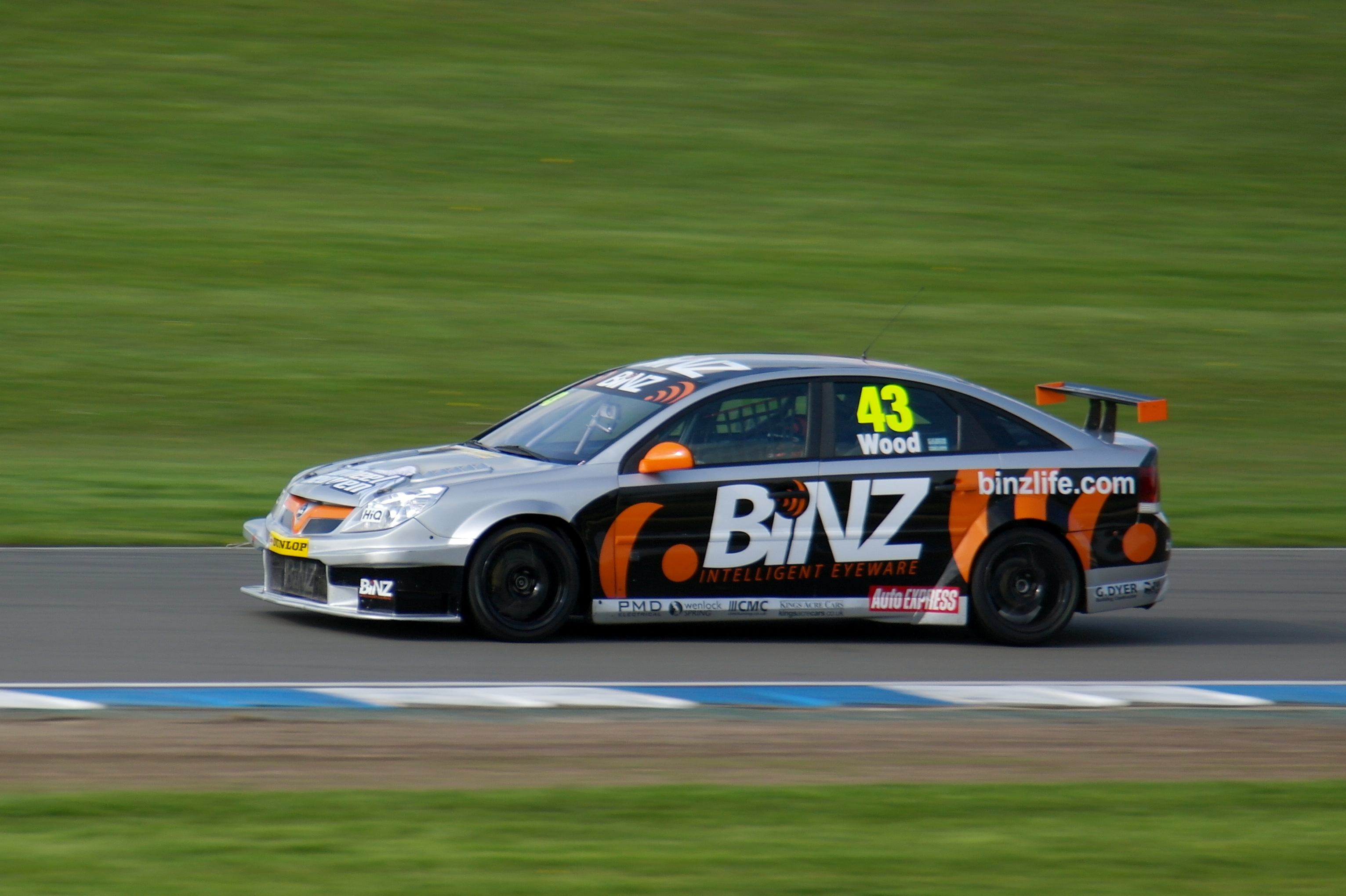 Lea Wood driving for BINZ Racing at the Donington Park round of the 2012 British Touring Car Championship. Practice session 1.